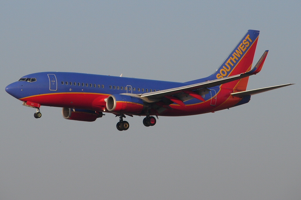 A sign of a new era in MSP... Southwest Airlines new serivce from Chicago (Midway).